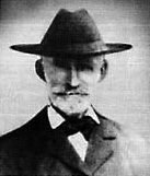 Bill Cust, gold prospector, circa 1870.